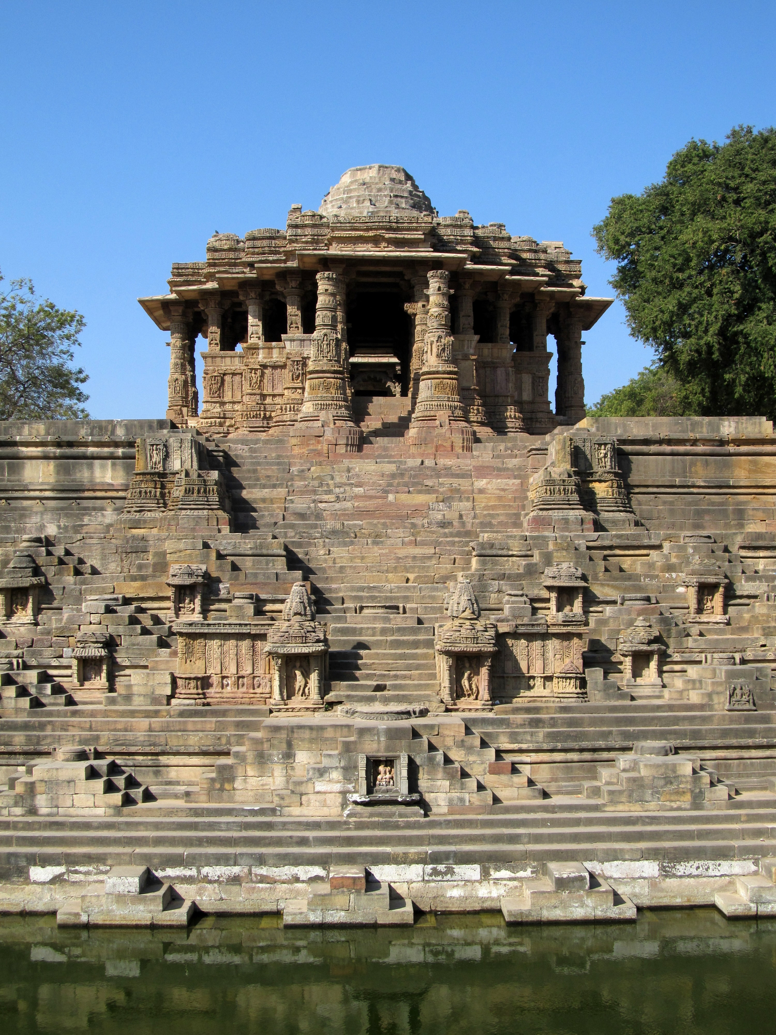 Sun temple, Surya kind with adjoining other temples & loose sculptures